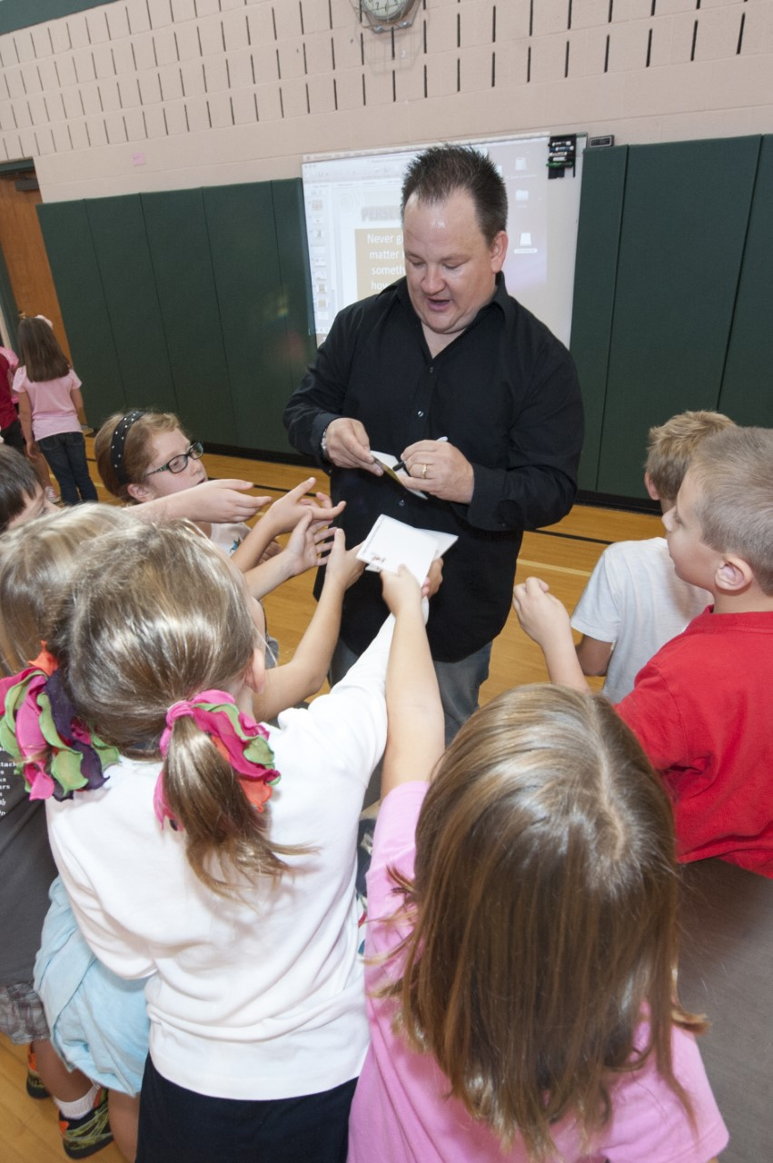 Children's book author Matt Chandler signing books for students at an elementary school in 2013.